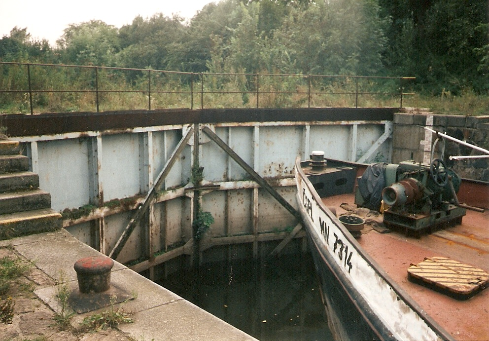 Old ship lock of former dam Hadik at Elbe river near city of Melnik. Upper gate, closed and from other side buriedin concrete. The lock is used like dry-dock. Česky: Stará plavební komora Hadík na Labi nedaleko Mělníka. Pohled na uzavřená a zabetonovaná horní vrata z komory, která dnes slouží jako suchý dok.